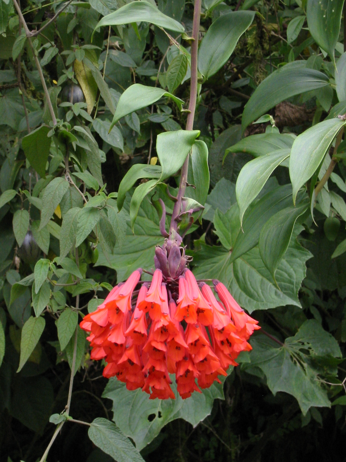 Bomarea species, Bomarea patacoensis, southern Ecuador